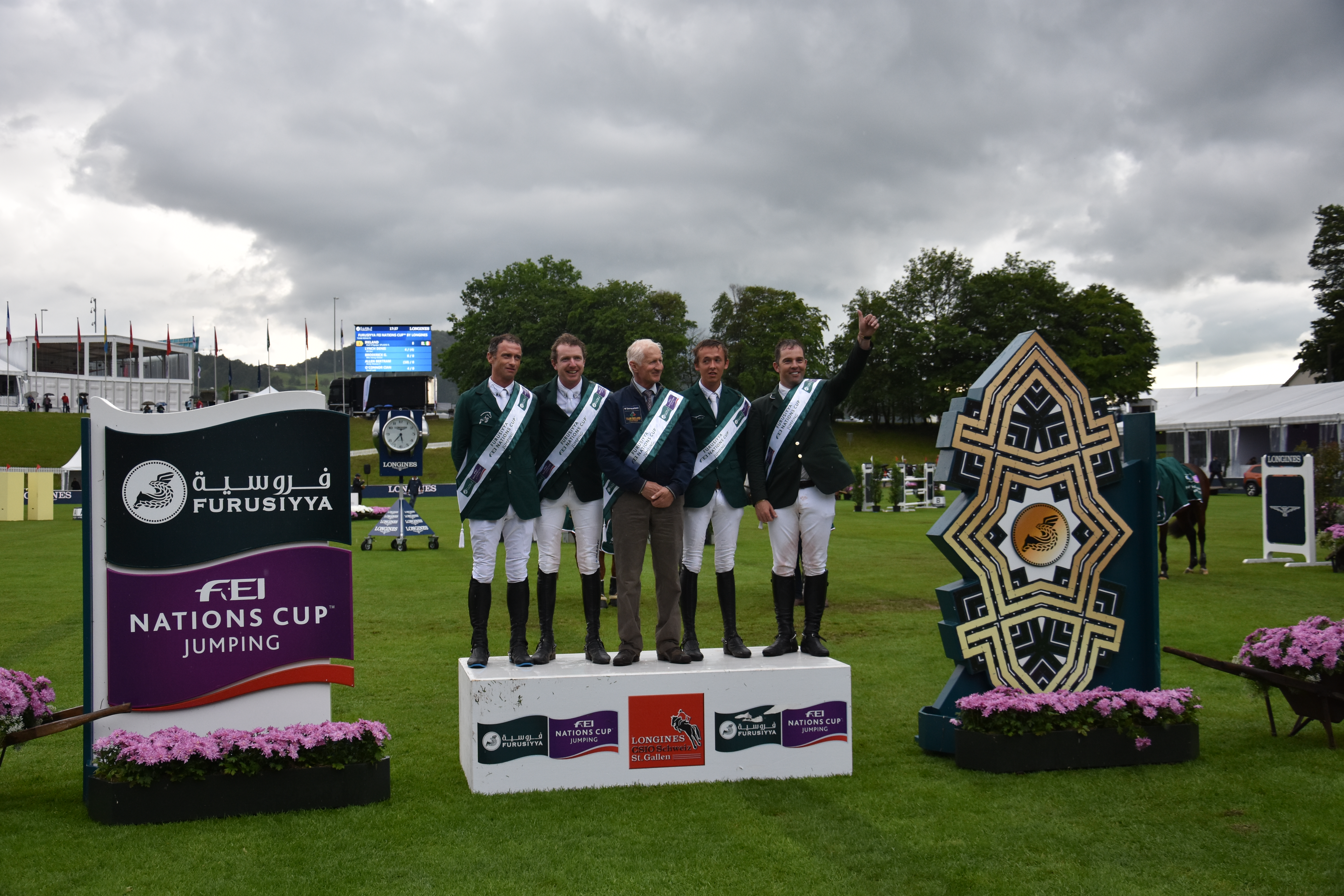 Ireland is the winning team at the Furusiyya FEI nation cup 2016 in St. Gallen. From left to right: Denis Lynch, Greg Patrick Broderick, Chef d'Equipe Robert Splaine, Betram Allen, Cian O'Connor